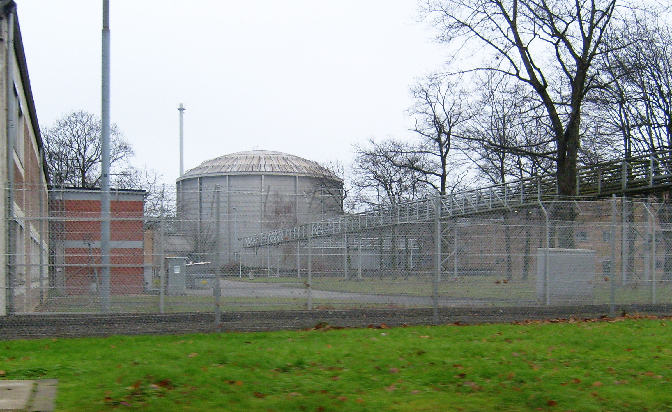 Research reactor Jülich 2 (DIDO)